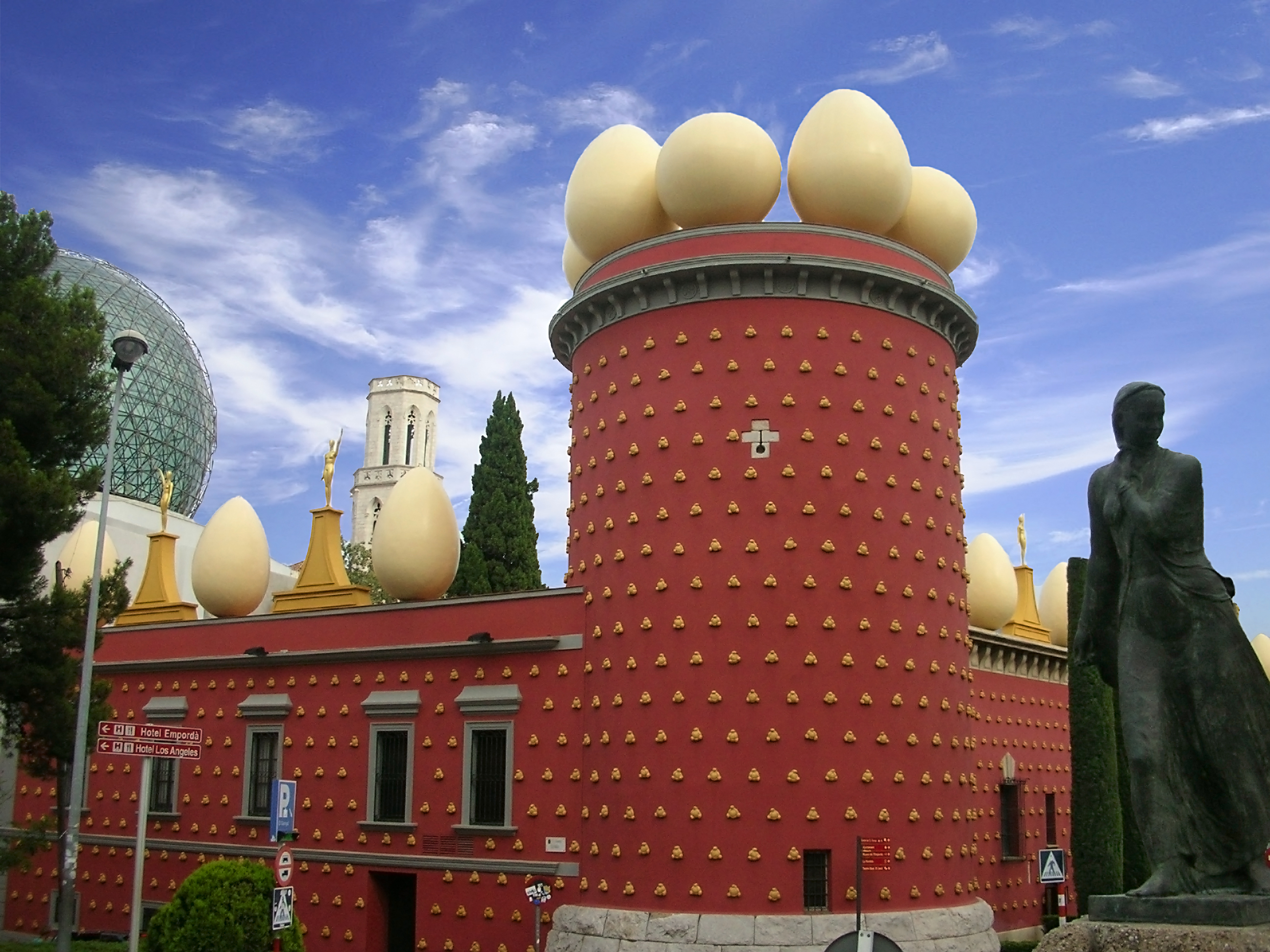 Dalí's museum